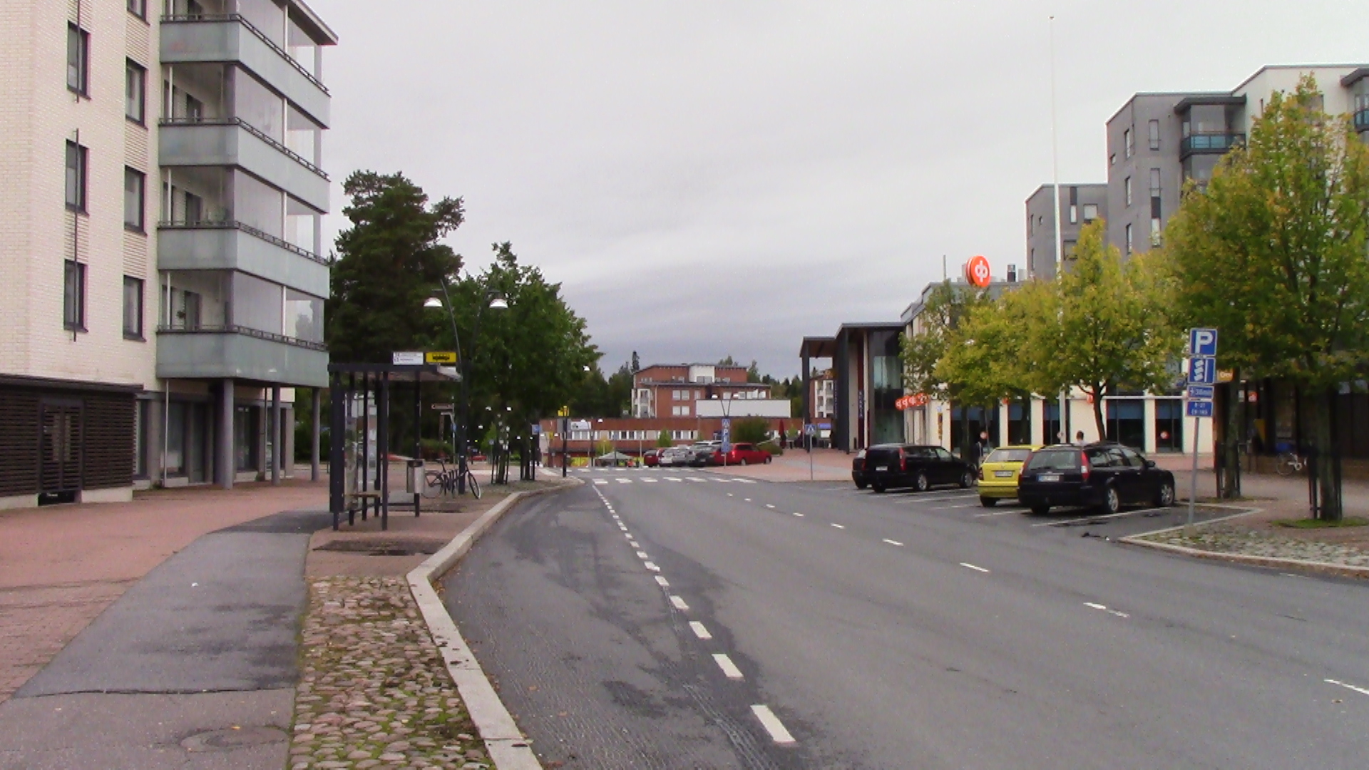 Suuppa area at Naistenmatka suburb in Pirkkala, Finland. The picture is taken from Suupantie road.